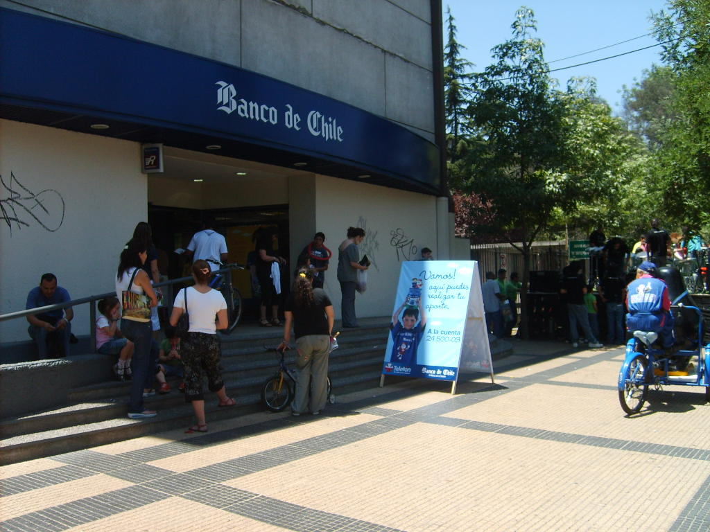 Banco de Chile in Teletón 2007